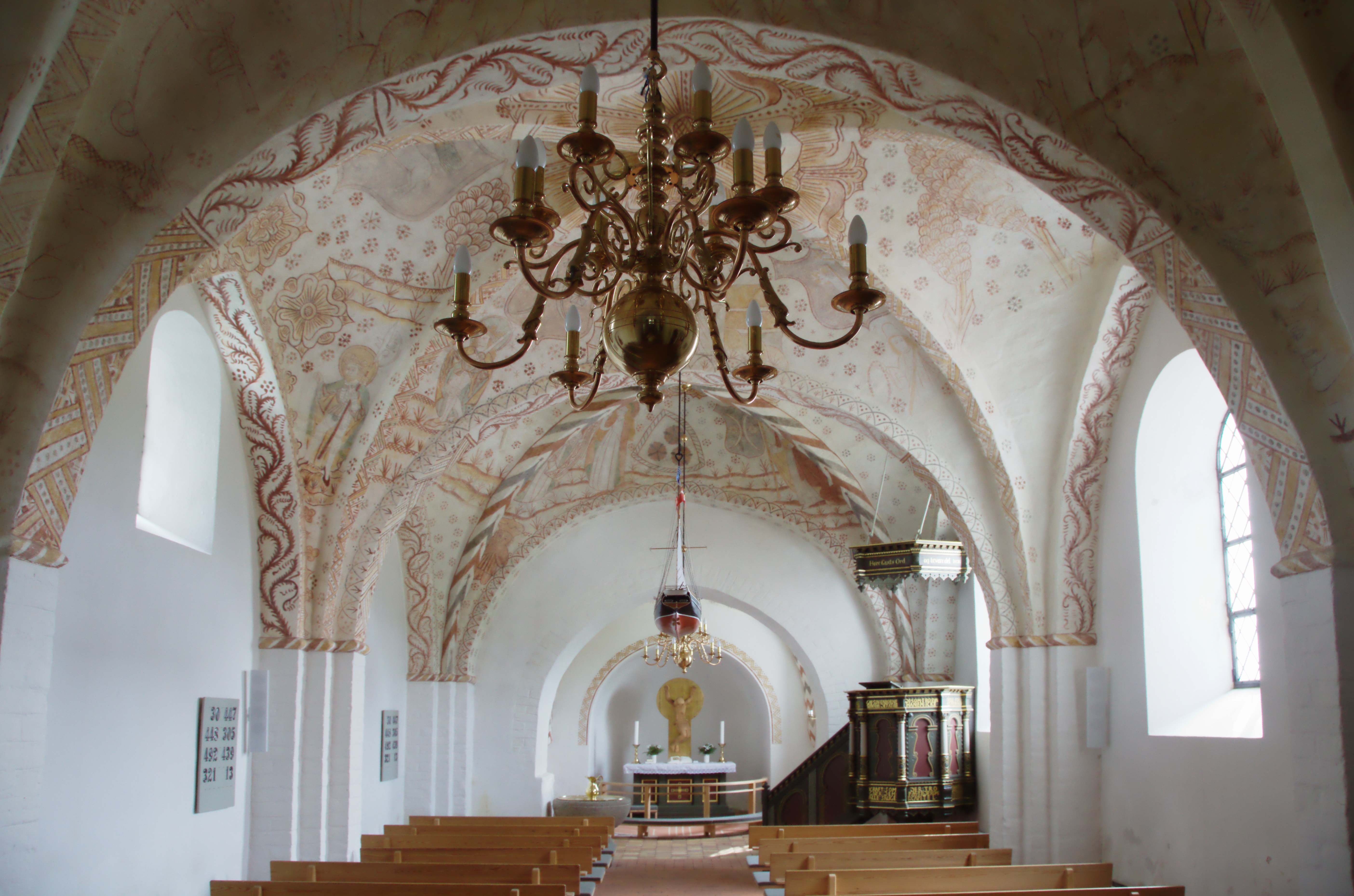 Skivholme Kirke, Denmark